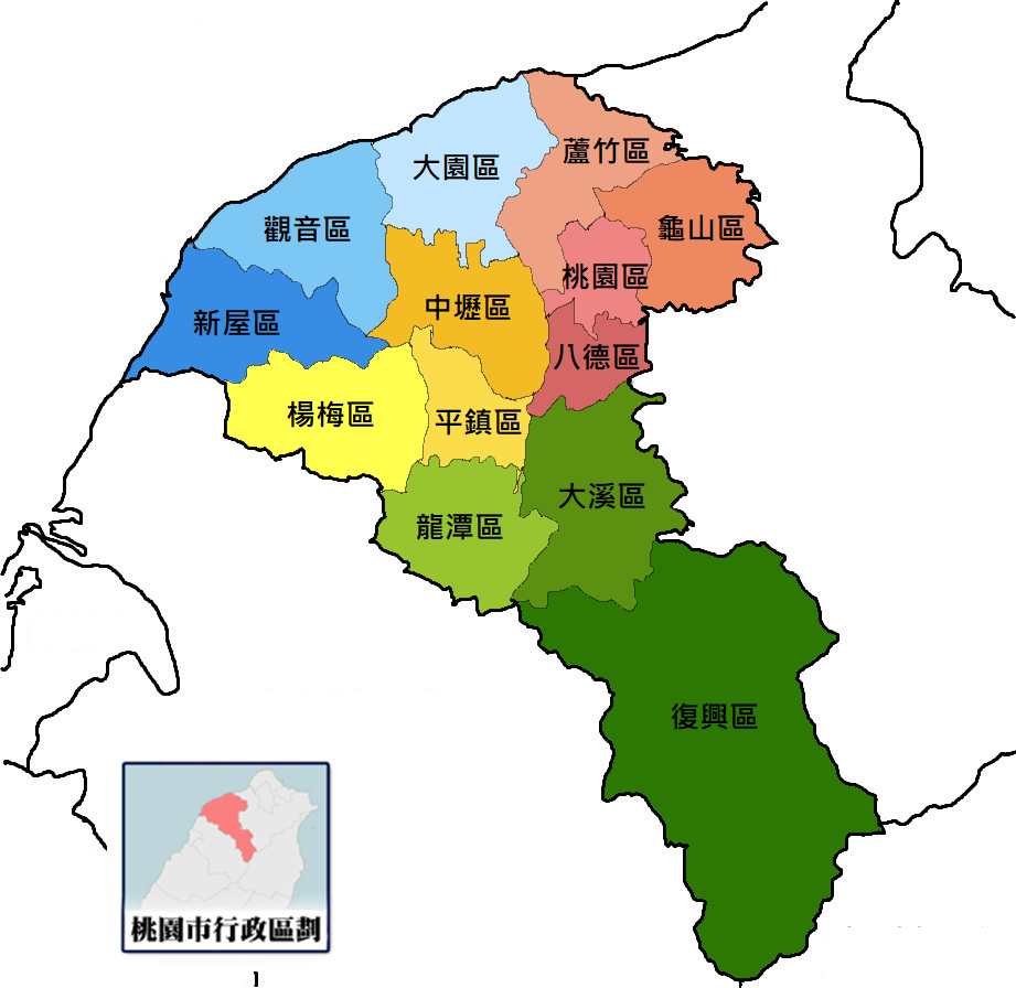 Map of Taoyuan City